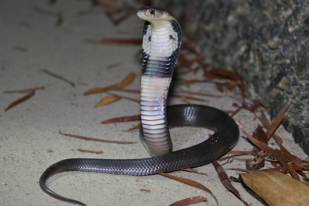 Found inside a water catchment on Lantau.